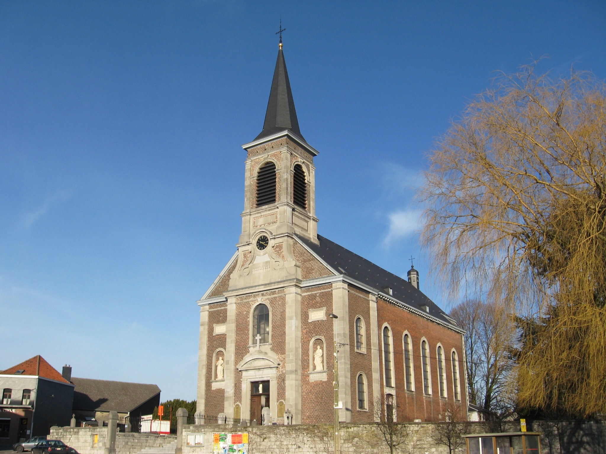 Church of Saint Stephen in Montzen, Plombières, Liège, Belgium